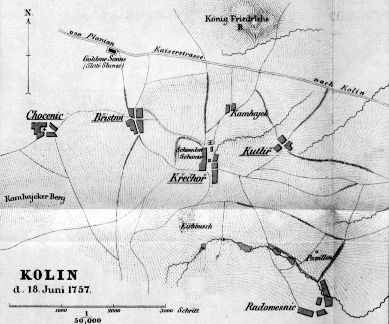 Image extracted from page 1079 of Deutsche National-Bibliothek. Volksthümliche Bilder und Erzählungen aus Deutschlands Vergangenheit und Gegenwart. Herausgegeben von F. Schmidt. Bd. 1-12', by SCHMIDT, Ferdinand - Jugendschriftsteller. Original held and digitised by the British Library. Copied from Flickr. Note: The colours, contrast and appearance of these illustrations are unlikely to be true to life. They are derived from scanned images that have been enhanced for machine interpretation and have been altered from their originals.